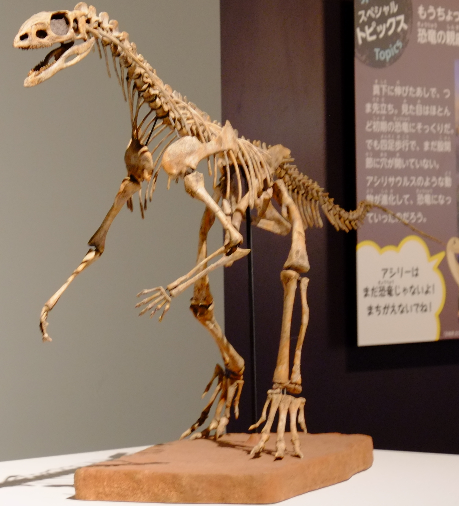 久々&慌ててたのもあって今回はぶれてる写真が多いよ。。。 寛骨臼が貫通してないのも図録でしっかり見る始末。